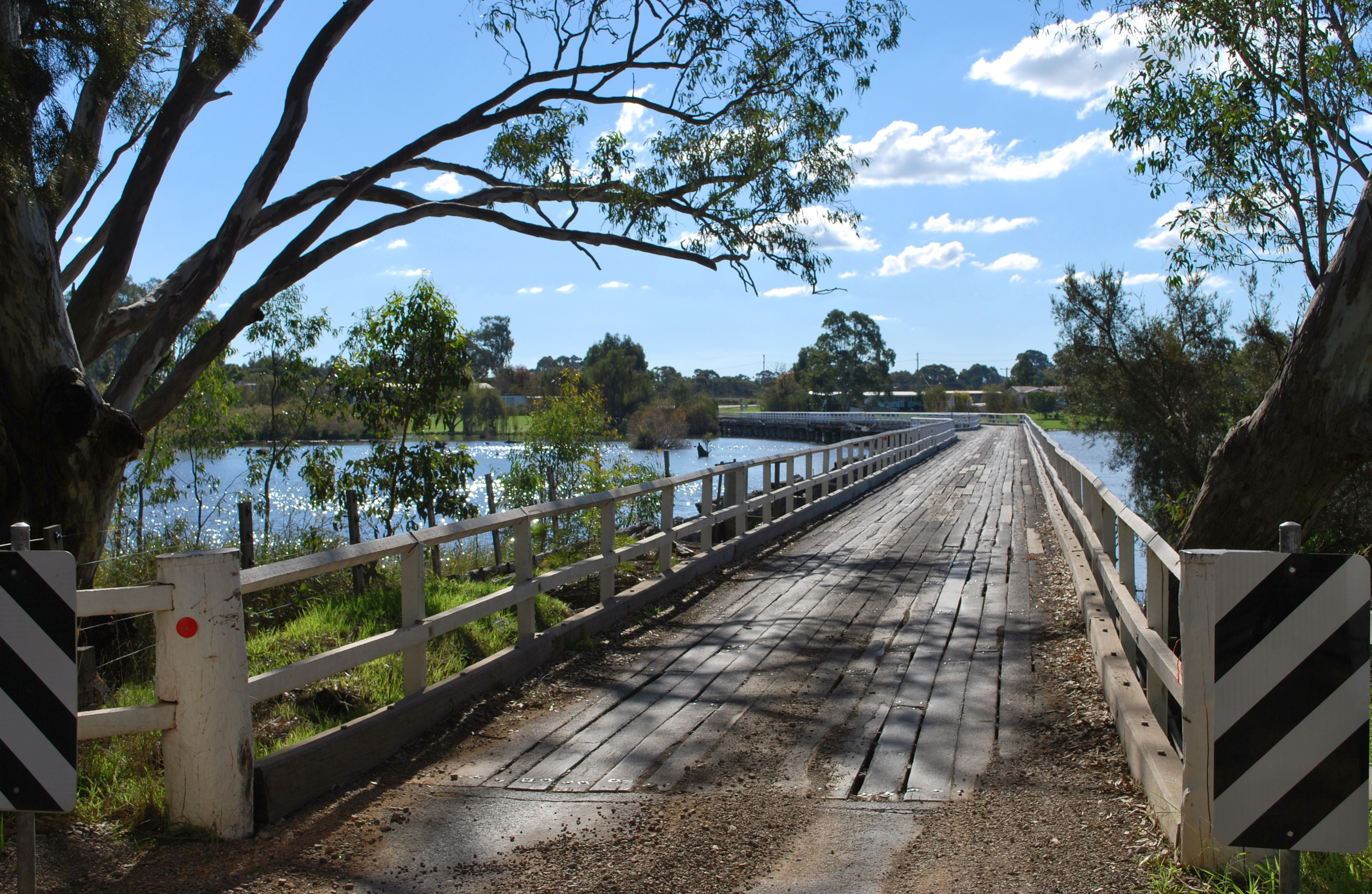 Kirwans Bridge over Goulburn Weir at Nagambie, Victoria